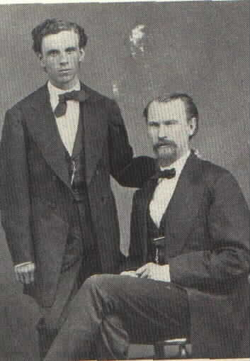 James Dolan and Lawrence Murphy (from left to right).